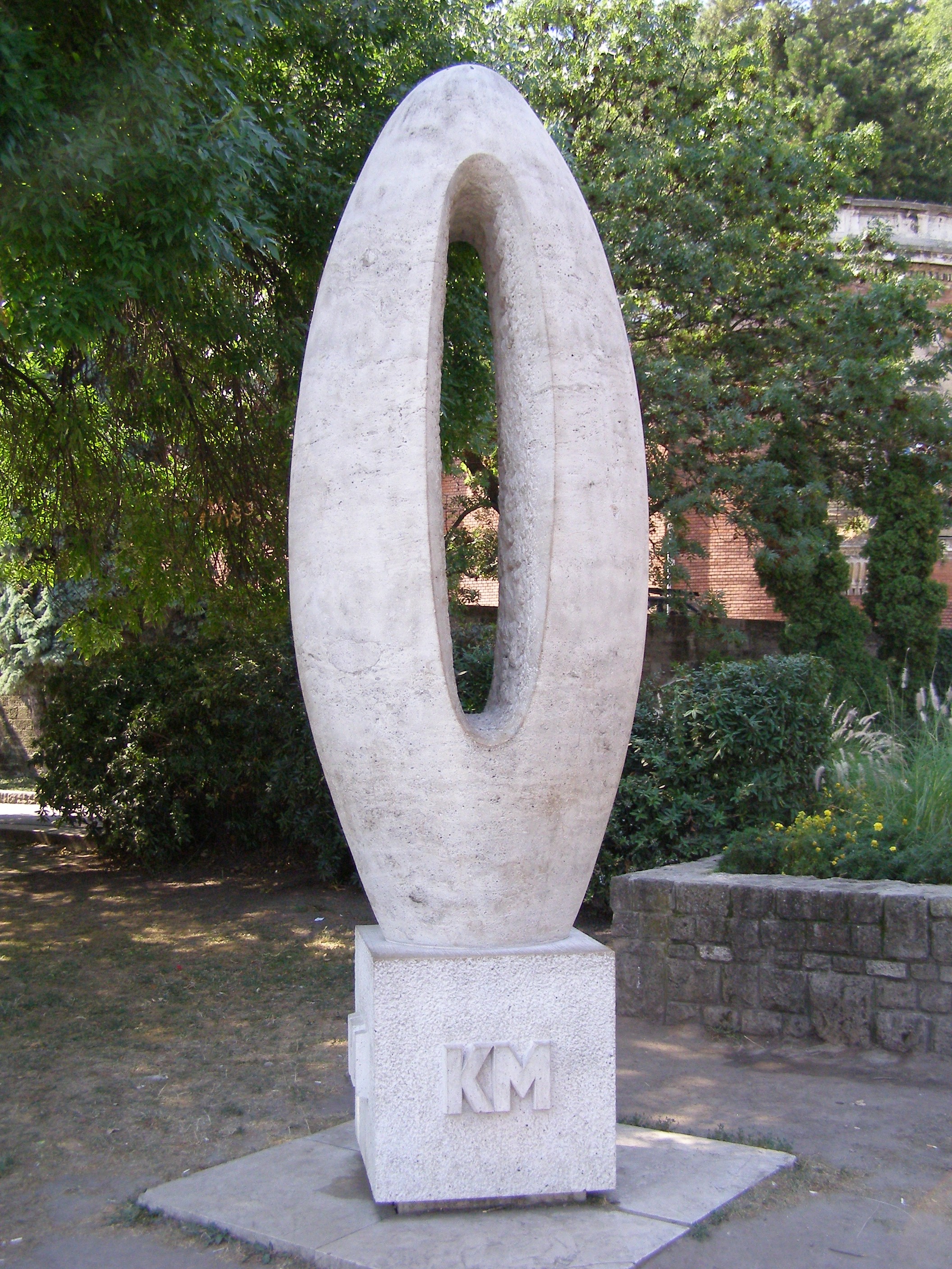 Budapest - Zero Kilometre Stone in Adam Clark square; 1st district Várkerület